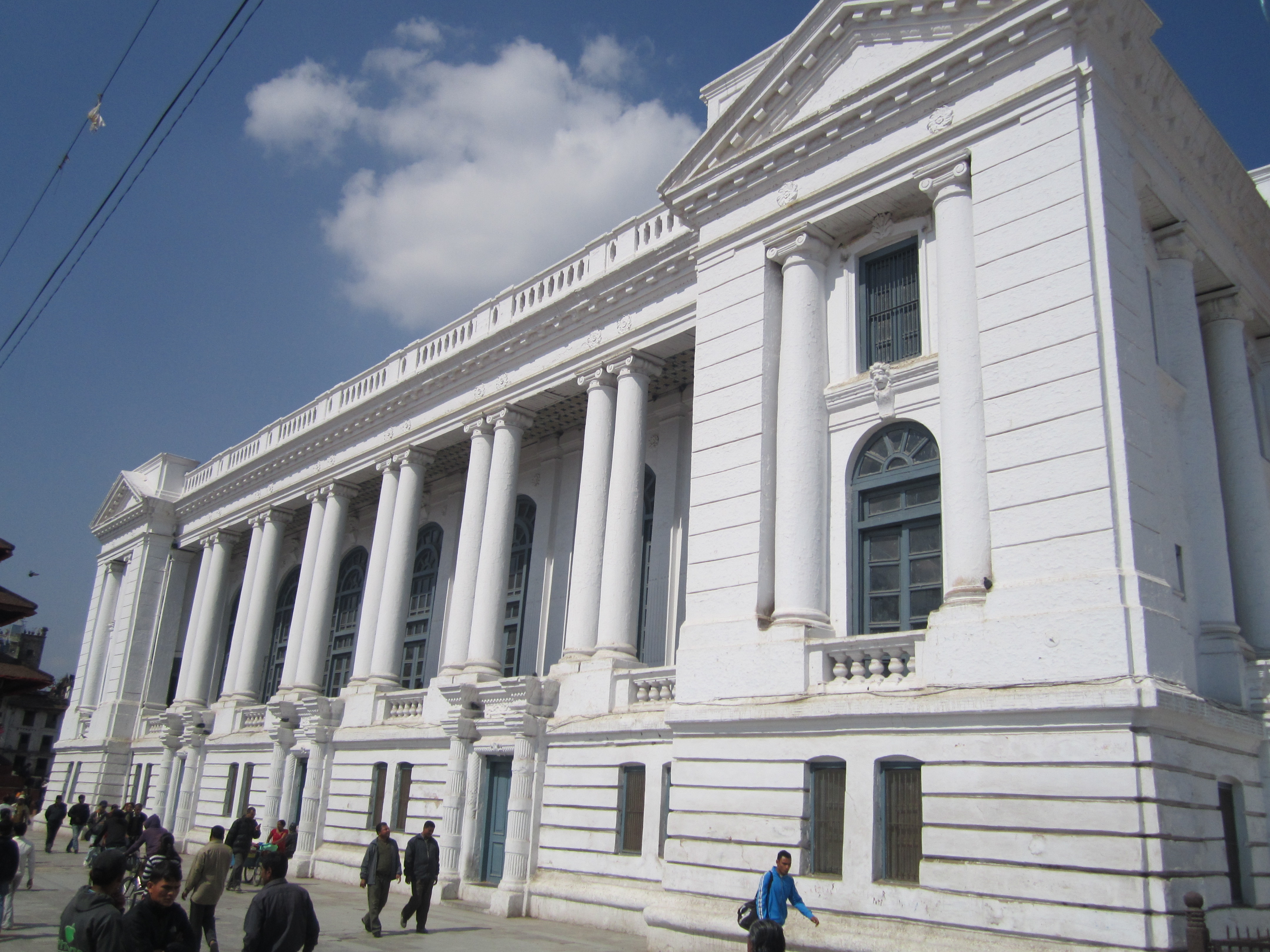 Hanuman dhoka